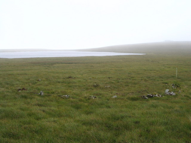 Hjaltadans Stone Circle, near to Houbie, Shetland Islands, Great Britain. This stone circle is well hidden in the moor to the north of Skutes Water. The story goes that the two central stones were a fiddler and his wife who were entertaining a group of trows and were interrupted in their music making by the rising sun which turned them all to stone. Must have been a better day than when I took the picture!